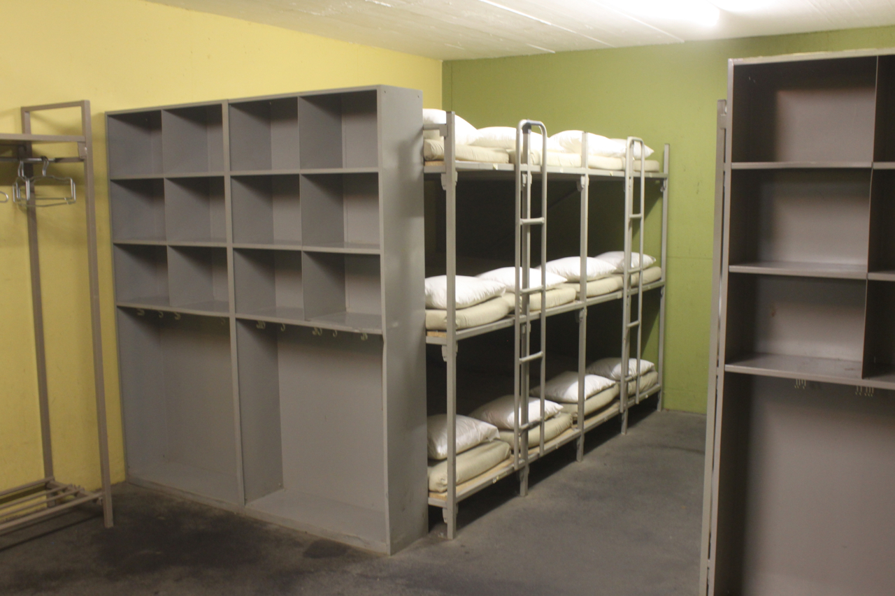 Interior of a fallout shelter in Hägendorf, Switzerland.